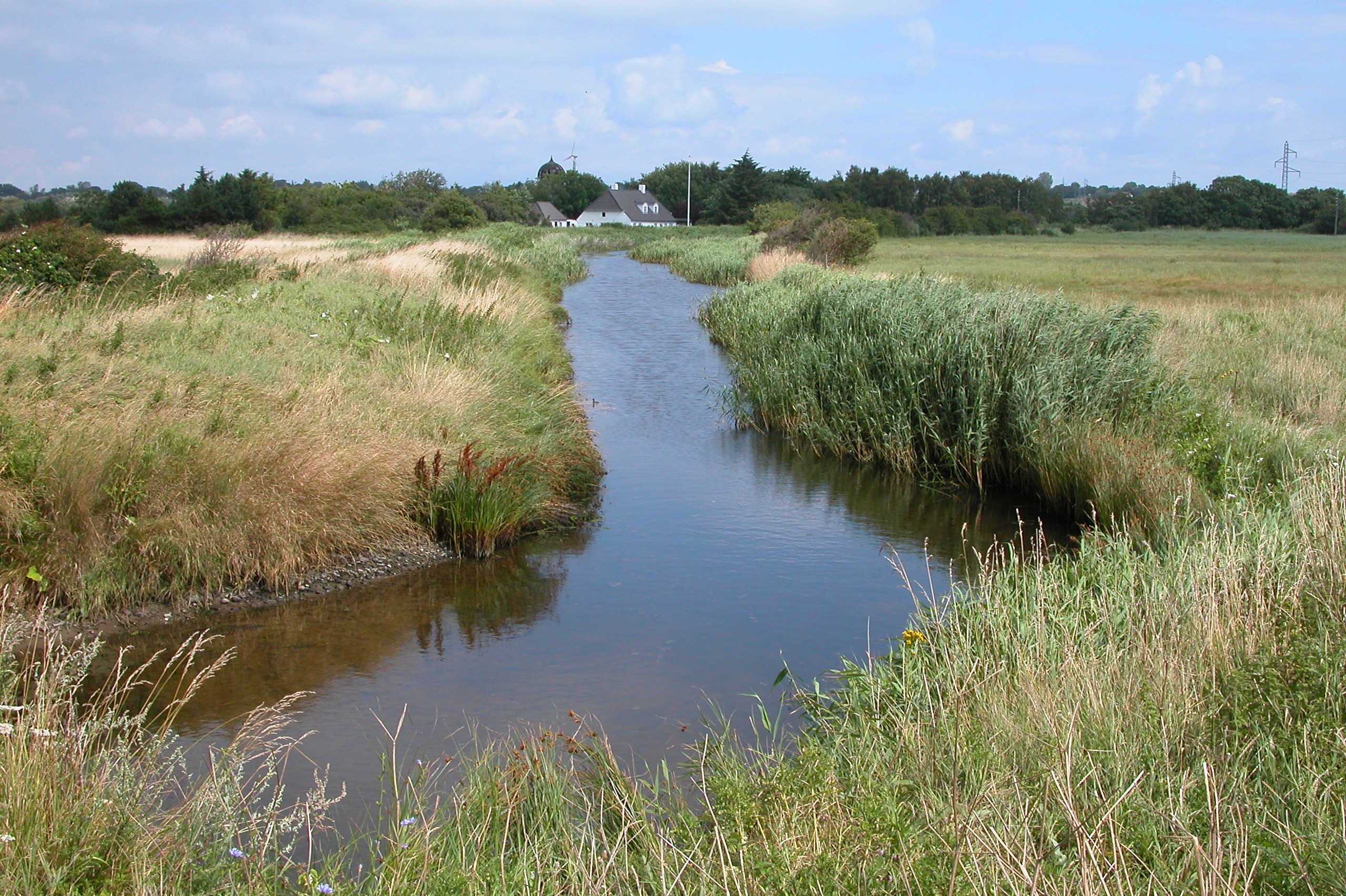 Vitsø Nor, Ærø, Denmark